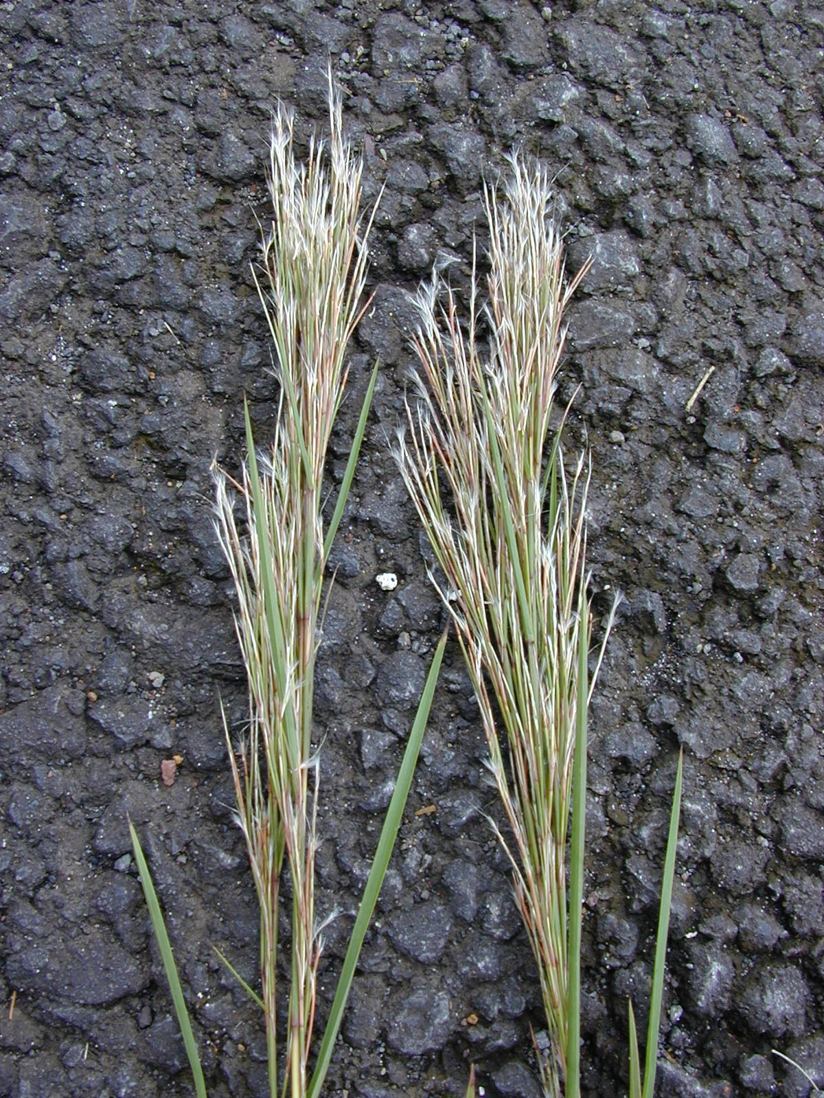 Schizachyrium condensatum (fruits). Location: Hawaii, Hilo